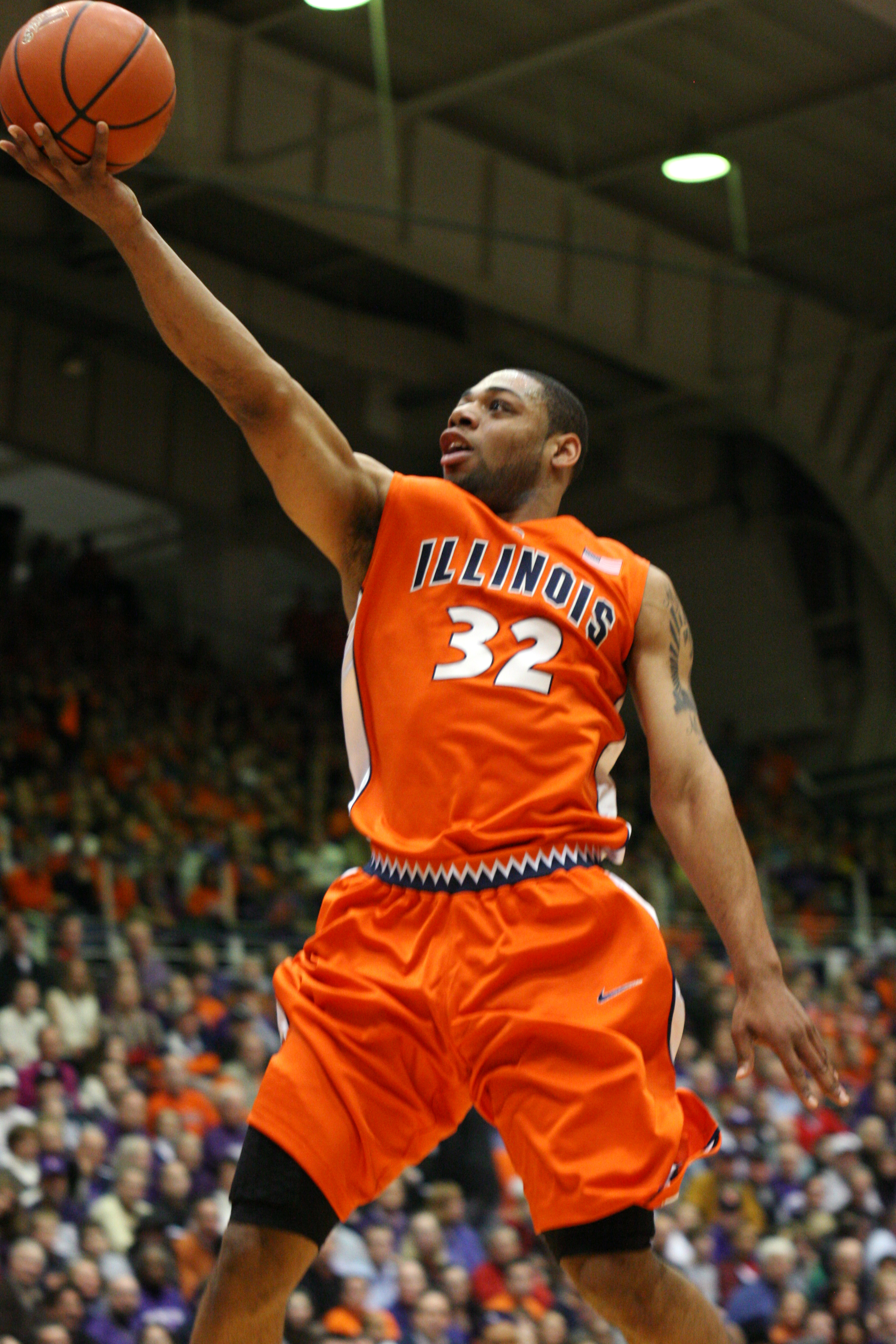 Demetri McCamey doing a finger roll or underhand layup